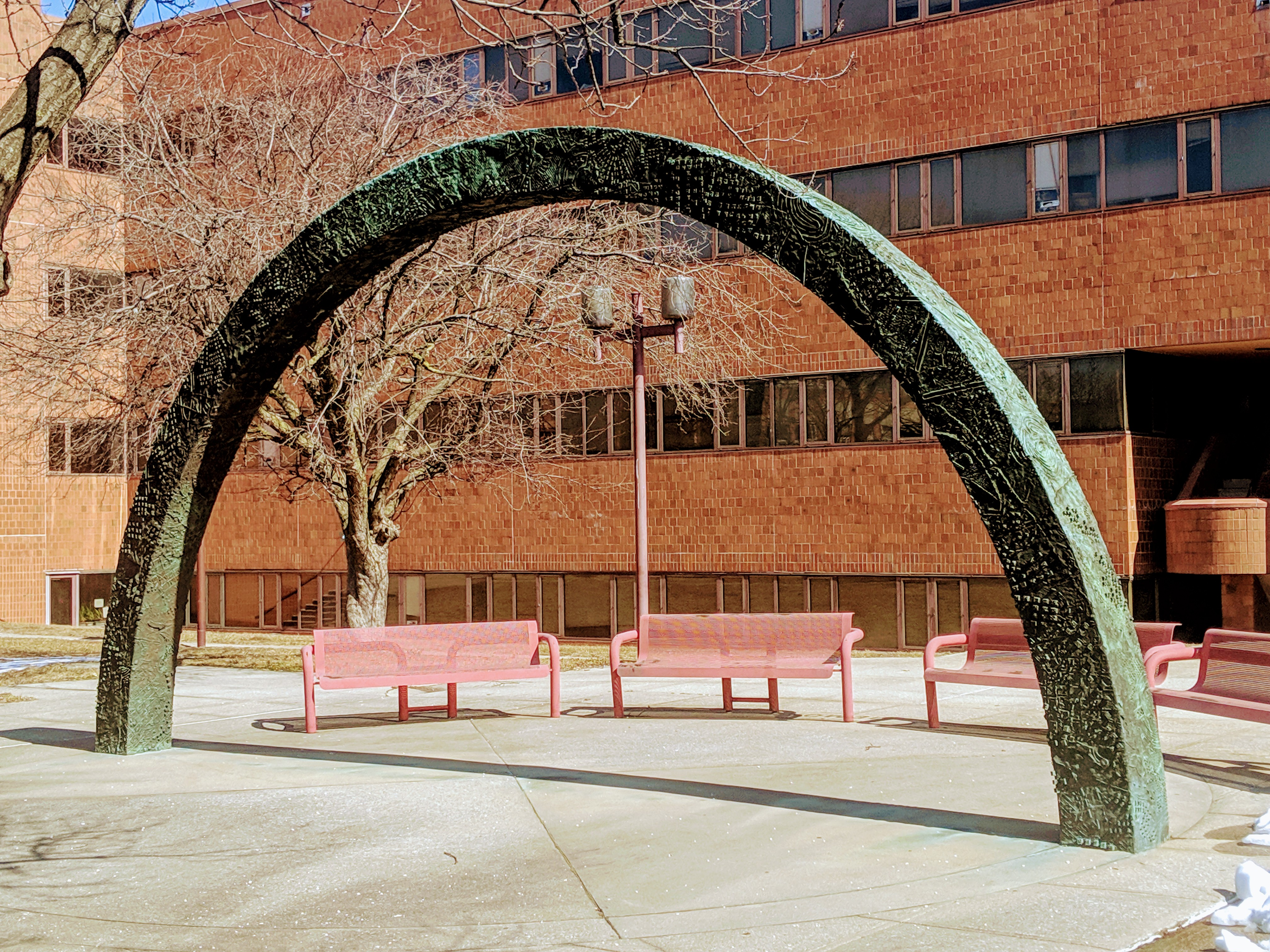 26' wide large scale installation, African brass embedded in the concrete, covered by inlays of various symbols. Oxidized to a teal color it is accompanied by three metal circles embedded in nearby concrete pavements, called memory, vision and imagination. Each circle is divided into four equal sections.